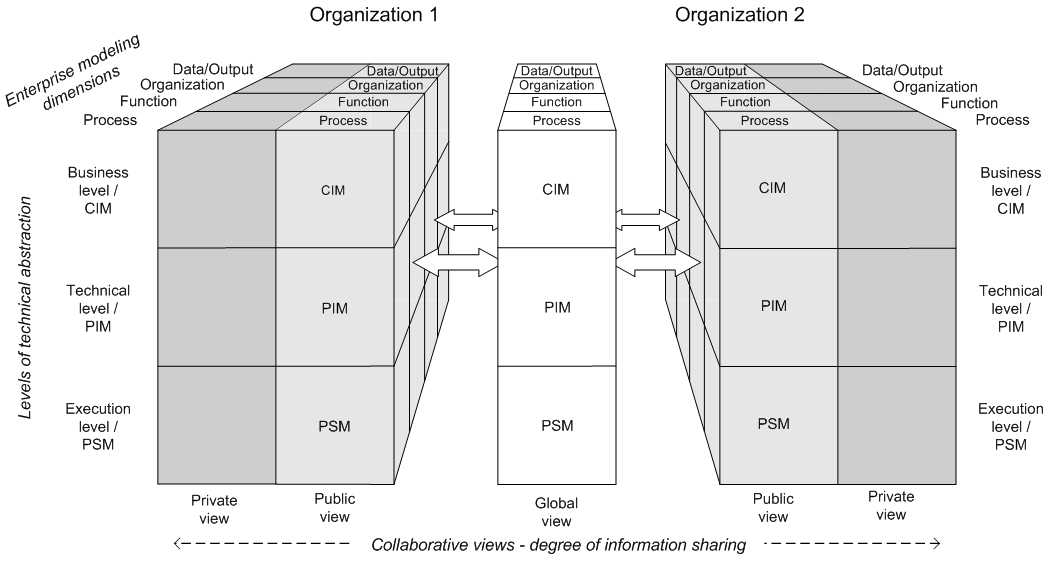 The graphic illustrates the three axes of the architecture. Using these axes two or more organizations can develop interoperating information systems.